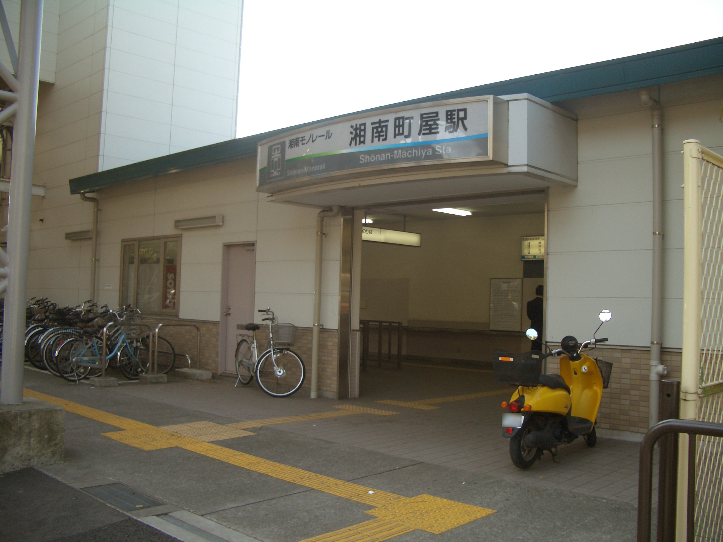 The building of Shōnan-Machiya Station on the Shōnan Monorail Line in Kamakura city, Kanagawa prefecture, Japan